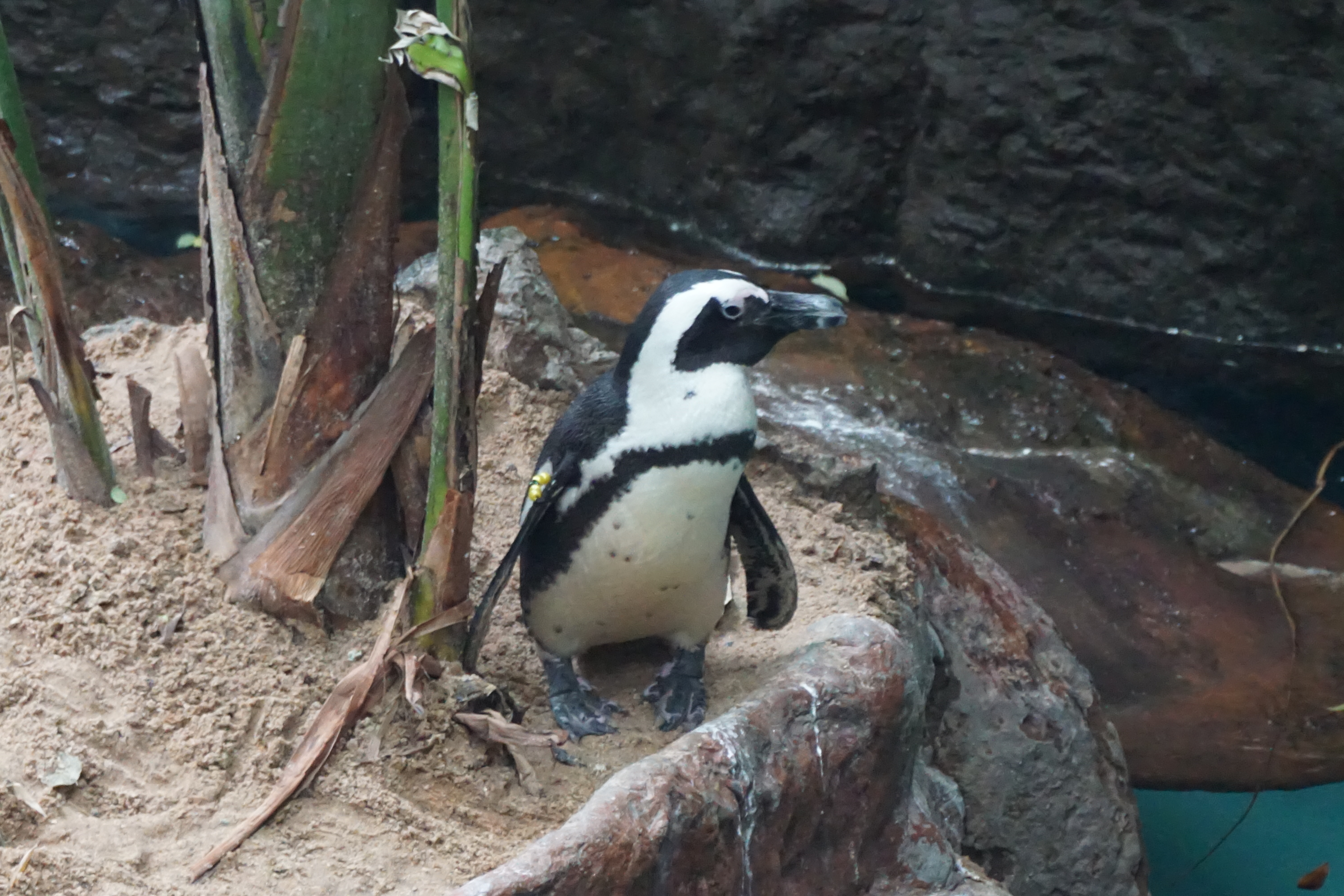 A black-footed penguin at the Dallas World Aquarium in Dallas, Texas (United States).